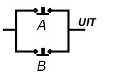 NAND gate represented as a pushbutton switch circuit.